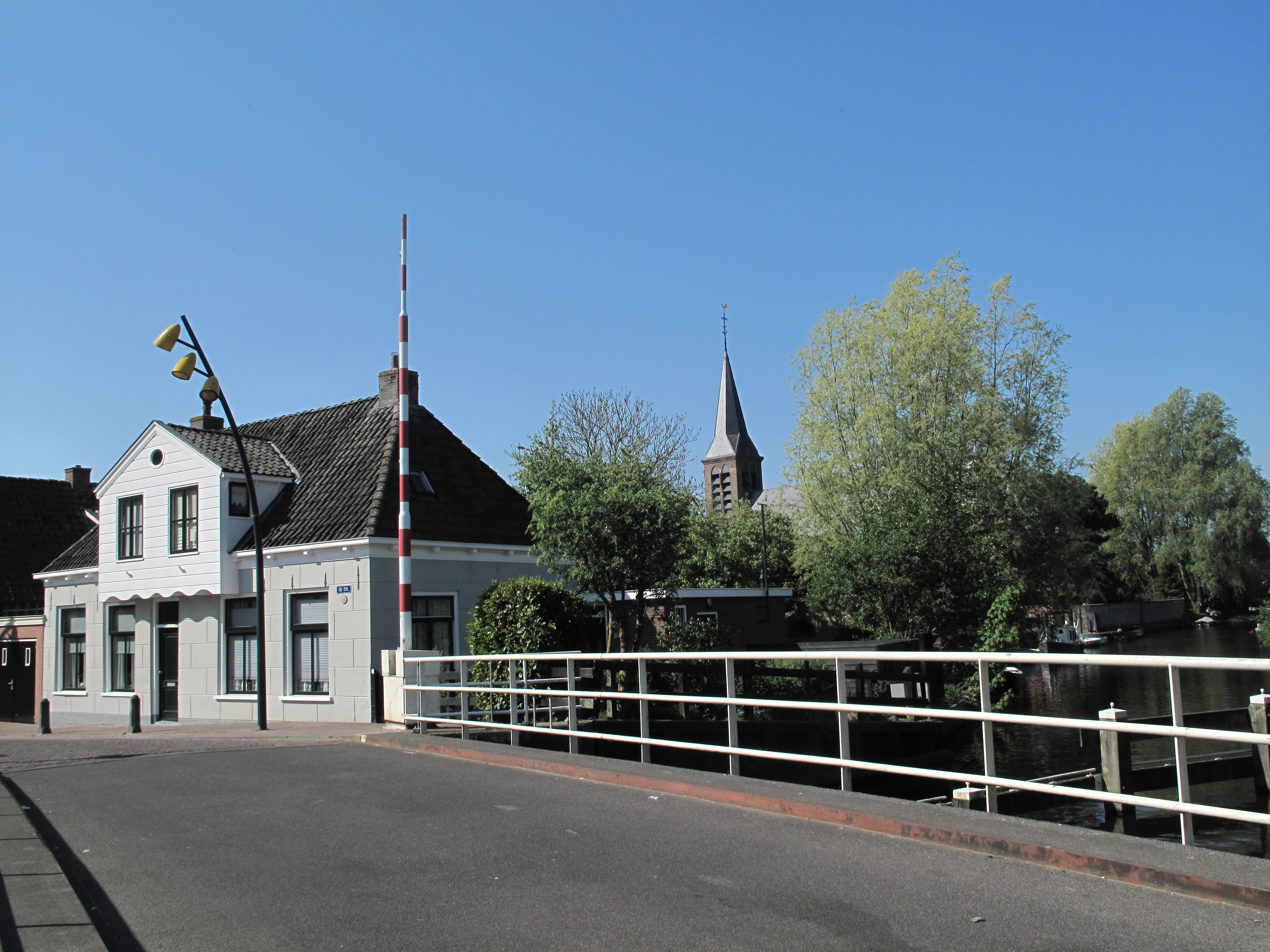 Heeg, view to a church from the bridge